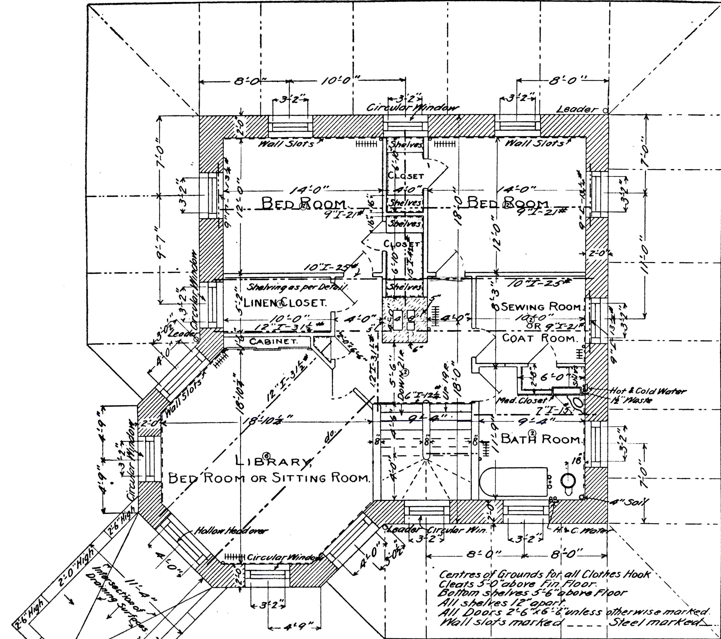 From the book. A Model Fire-Proof Farm House Or Country Home. Practical Suggestions For Economical And Enduring Construction, With Complete Plans And Specifications Of A Model Building by ALA Himmelwright, Published by The Neale Publishing Company, New York, 1913.